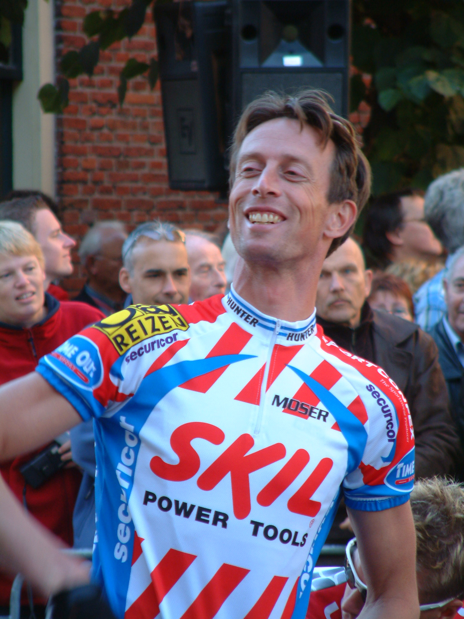 Bart Voskamp, cycling for Skil at the time, present at the goodbye party for Tristan Hoffman, who quit his professional cycling career in 2005. At the same time, this was the goodbye party for Voskamp too. Photo taken in Groenlo, october 16, 2005.